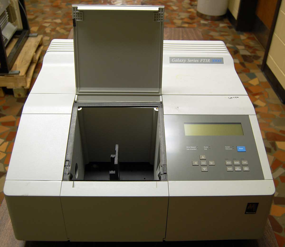 Mattson Galaxy 3000 FTIR spectrometer (exterior view, sample insertion port open).